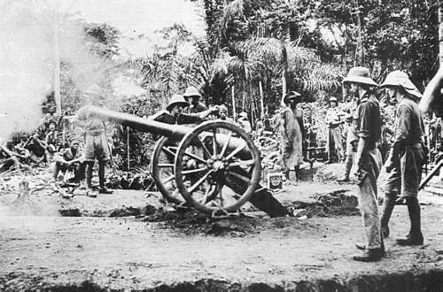 Royal Navy QF 12 pounder 8 cwt gun in action at Fort Dachang, Cameroons, 1915. West Africa Campaign. Note drag shoes fitted under wheels to limit recoil.